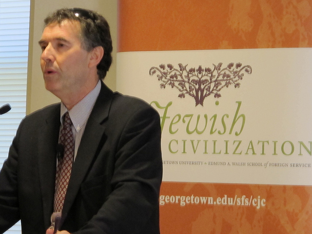 Professor Yossi Shain at Conference Picture, privately taken